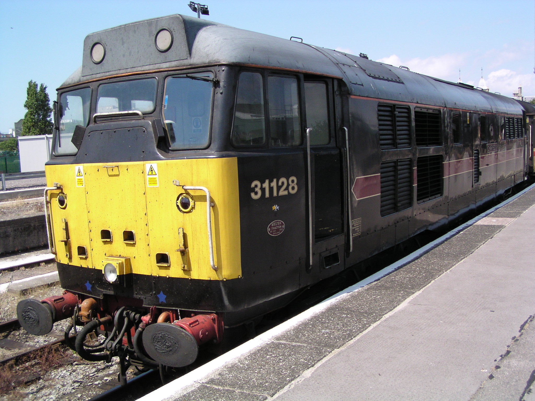 BR Class 31, no. 31128 'Charybdis', at Bristol Temple Meads on 23rd July 2004.